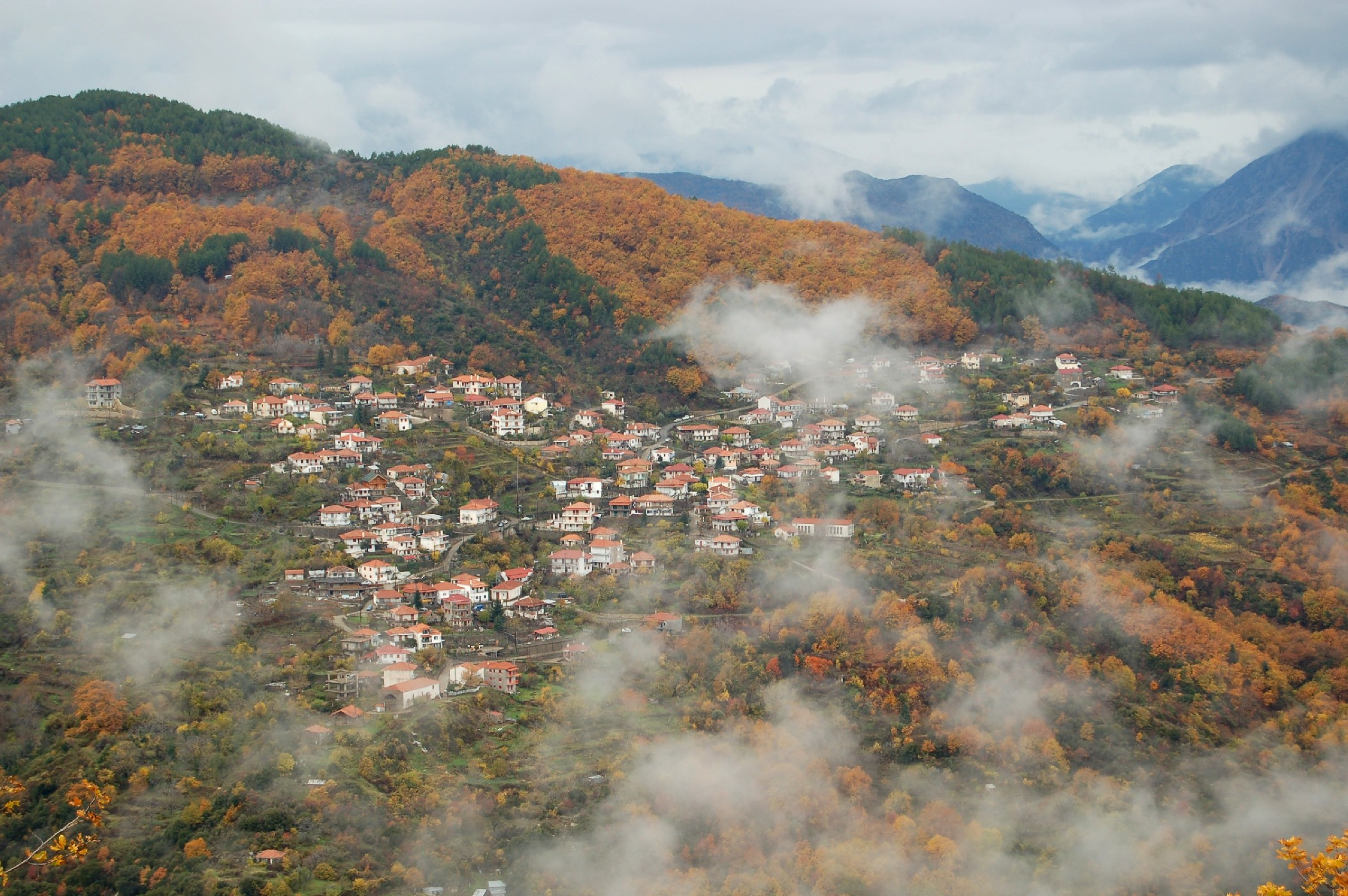 Potidaneia vilalge in Phocis Prefecture